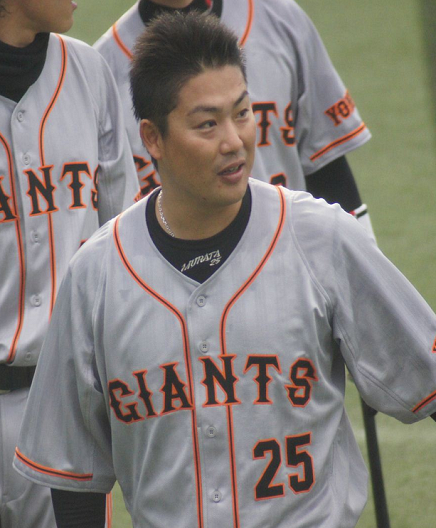 Shuichi Murata, infielder of the Yomiuri Giants.